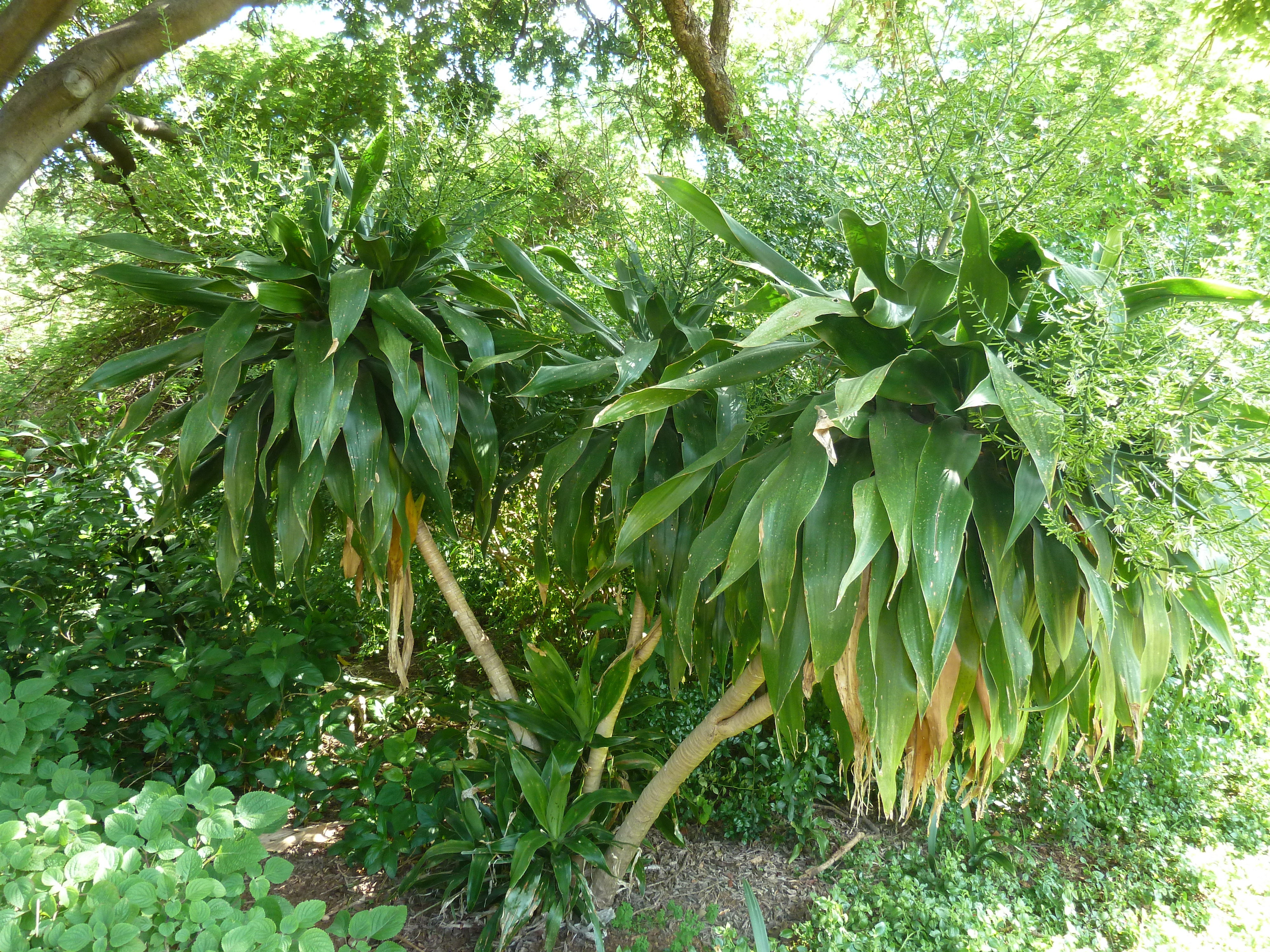 Large-leaved dragon-tree in Springbok Park, Pretoria